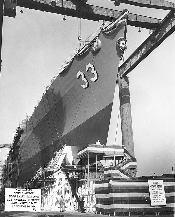 The U.S. Navy guided missile cruiser USS Fox (DLG-33) ready for launching at the Todd Shipyards Corporation Los Angeles Division shipyard, San Pedro, California (USA), on 21 November 1964.